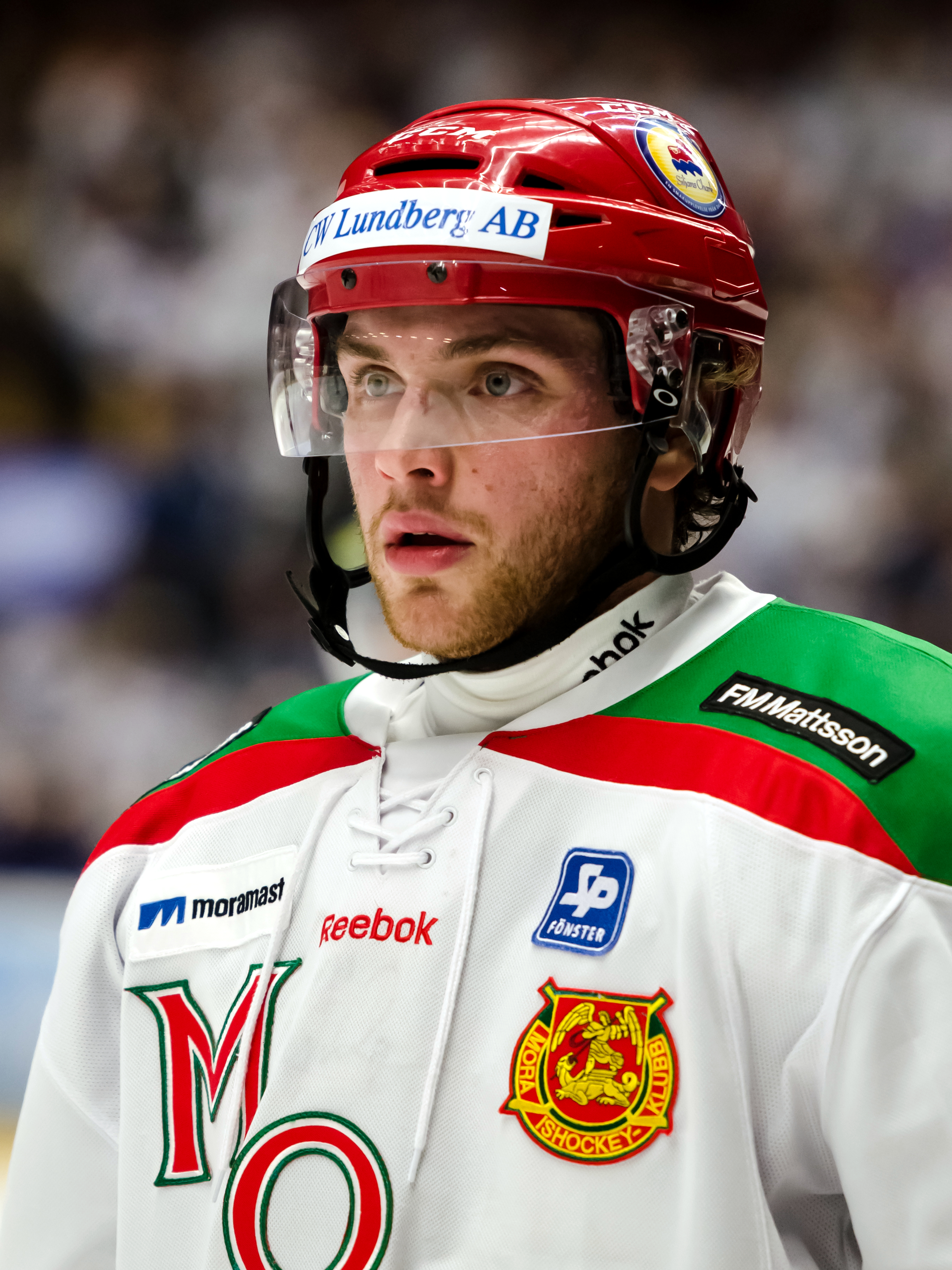 Bobby Ryan playing for Mora IK in Hockeyallsvenskan (Swedish second league) against Leksands IF 2012-12-29.